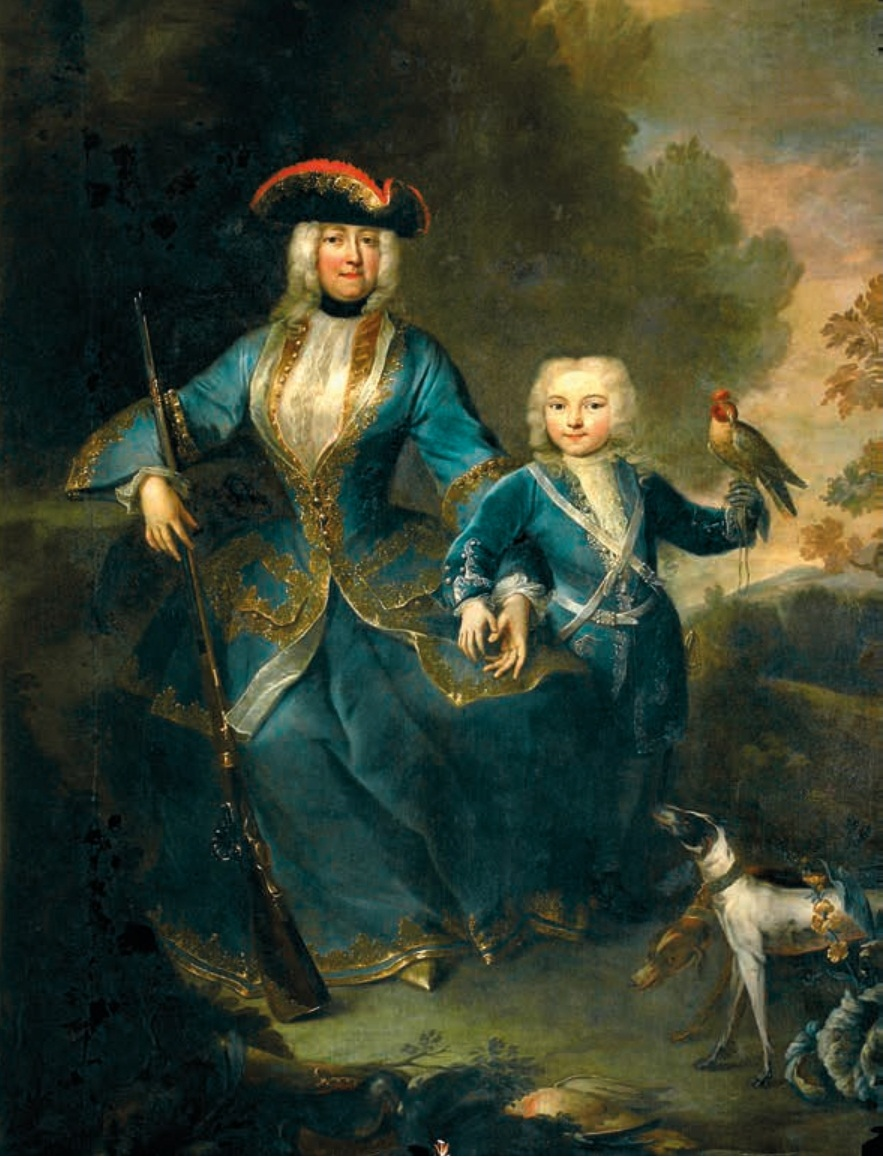 Portrait of Eleonore of Schwarzenberg with her son Joseph